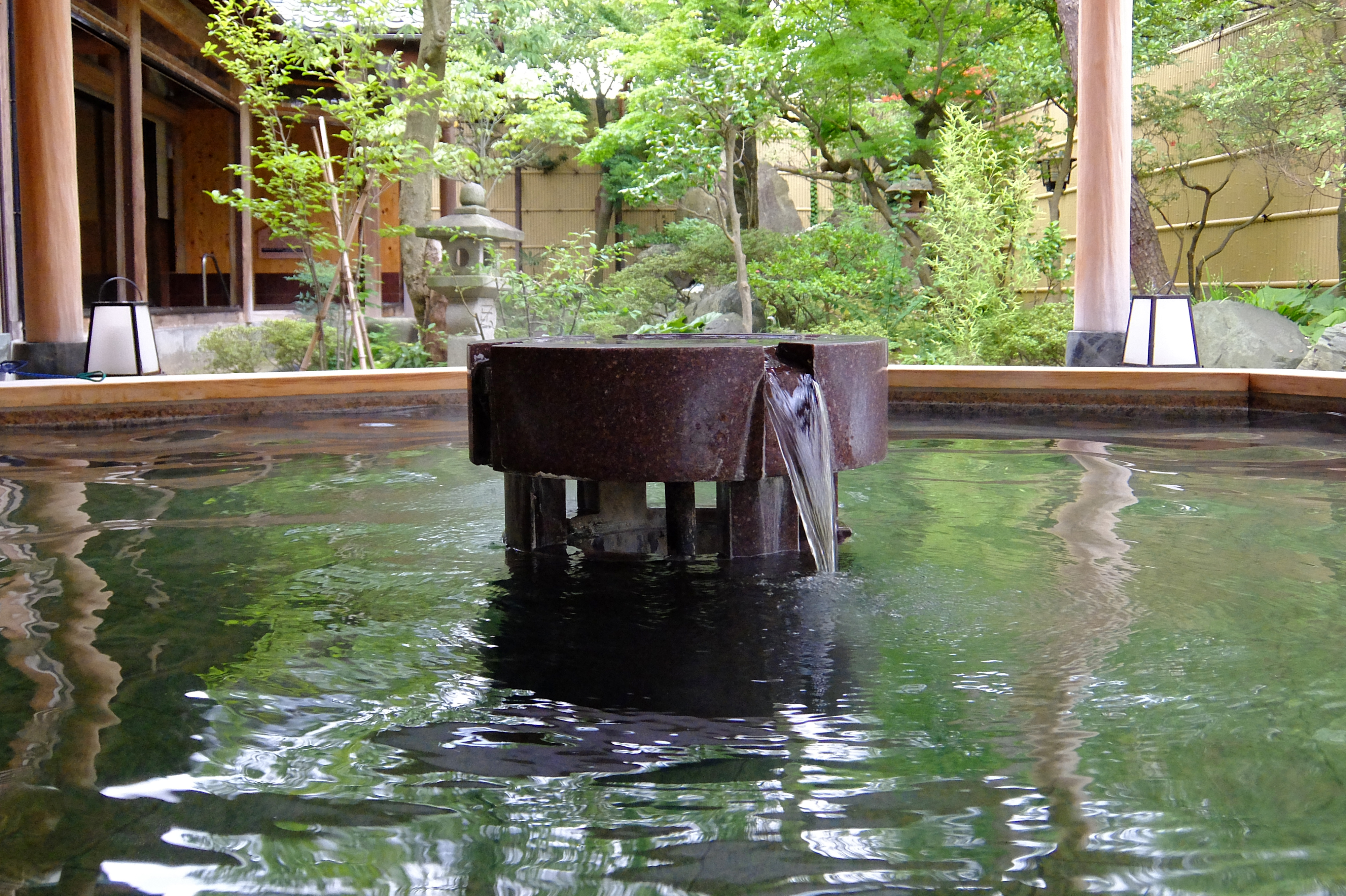 At Tsukioka_Onsen in Shibata, Niigata prefecture, Japan.